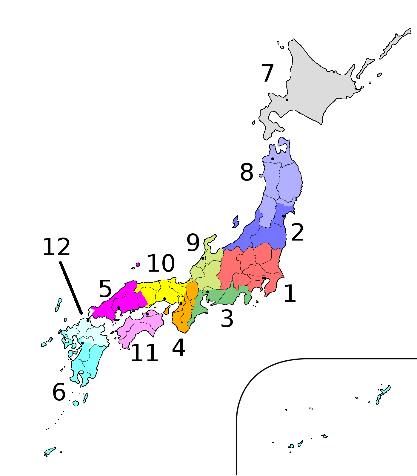 12 divisional regions of Japanese Army since April 1 of 1899 untill September 16 of 1907. Derived from File:Japan template large.png.